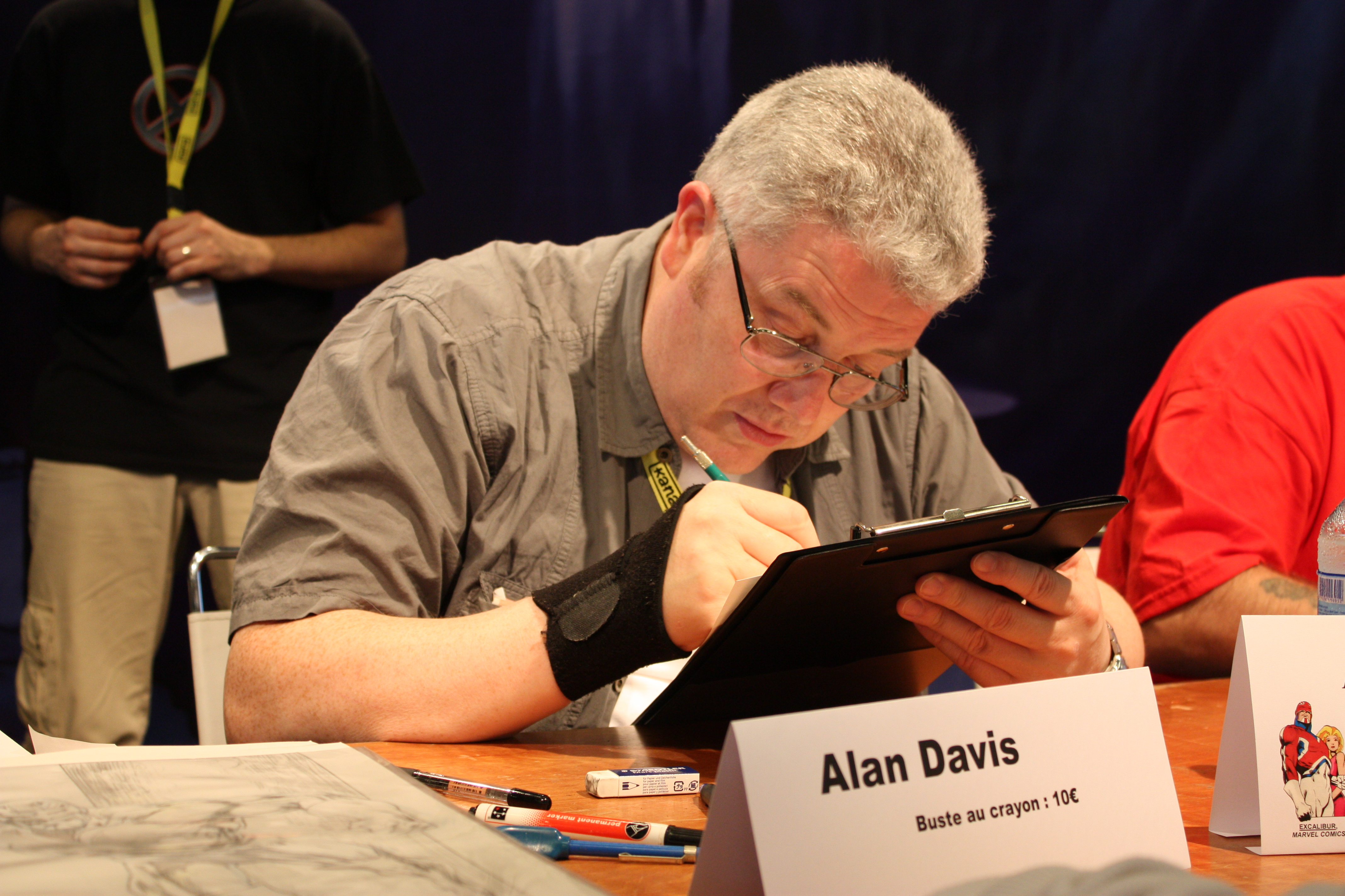 Autograph session with Alan Davis at Japan Expo 2008 (Paris, France)